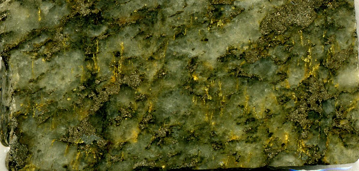 Homestake Mine gold ore (~1.25 cm across) - numerous visible gold blebs in high-grade gold ore sample from the Homestake Mine, town of Lead, northern Black Hills, western South Dakota, USA. The largest gold mine in the Americas was the long-lived Homestake Mine in the town of Lead (pronounced “Leed”), South Dakota, USA. Located in the Lead Window of the northern Black Hills Uplift in western South Dakota, the Homestake Mine produced about 40 million ounces of gold. The gold at Homestake is almost exclusively confined to the Homestake Formation, a Paleoproterozoic (~1.9-2.0 billion years) sedimentary unit that originally consisted of interbedded Mg-rich siderite iron formation and marlstones. The Homestake Formation has been strongly deformed & multiply metamorphosed, and many of the original rocks were converted to greenschists (cummingtonite schists). The gold has been interpreted as having been originally deposited with the iron formation sediments by seafloor volcanogenic exahalative processes. Slight metamorphic gold mobilization and tight structural folding has resulted in the formation of auriferous greenschist pods along fold axes.